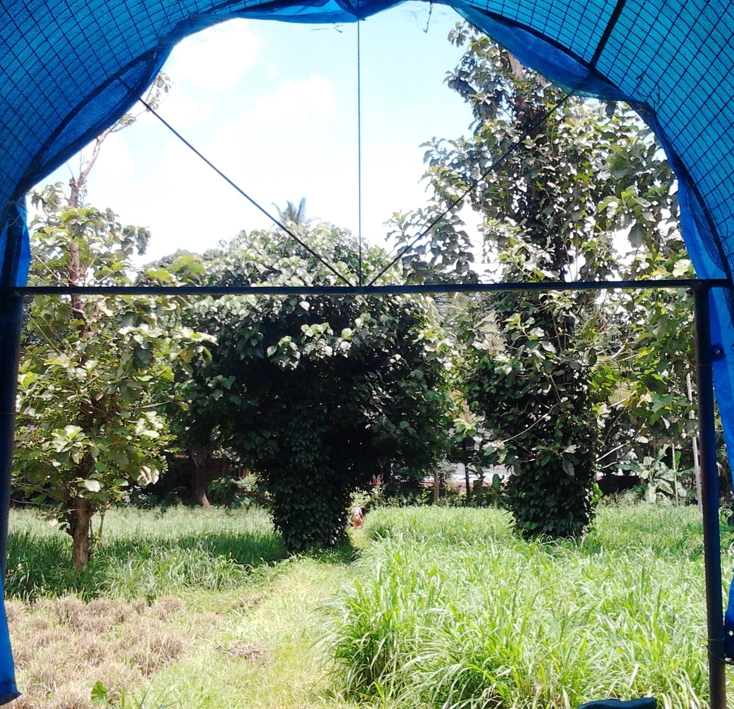 The ashram has a green meditation center inside a field.